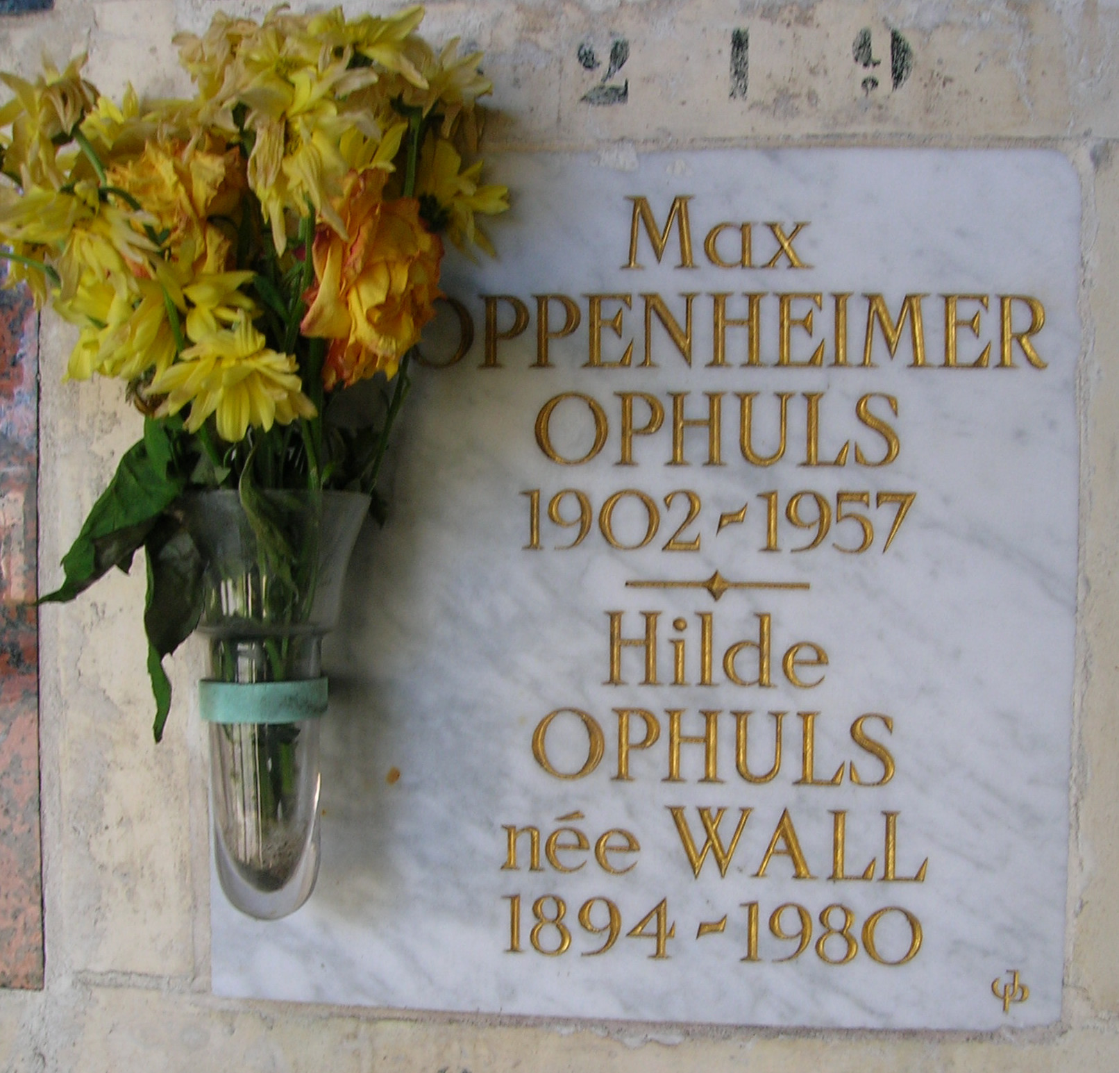 Commemorative plaque of Max Ophüls in the columbarium of the Père-Lachaise Cemetery (Paris, France)